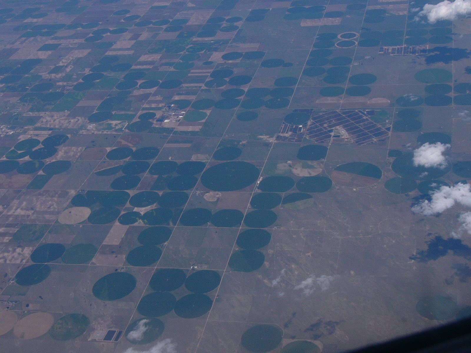 Aerial view of center pivot irrigation - taken from airplane over Western United States